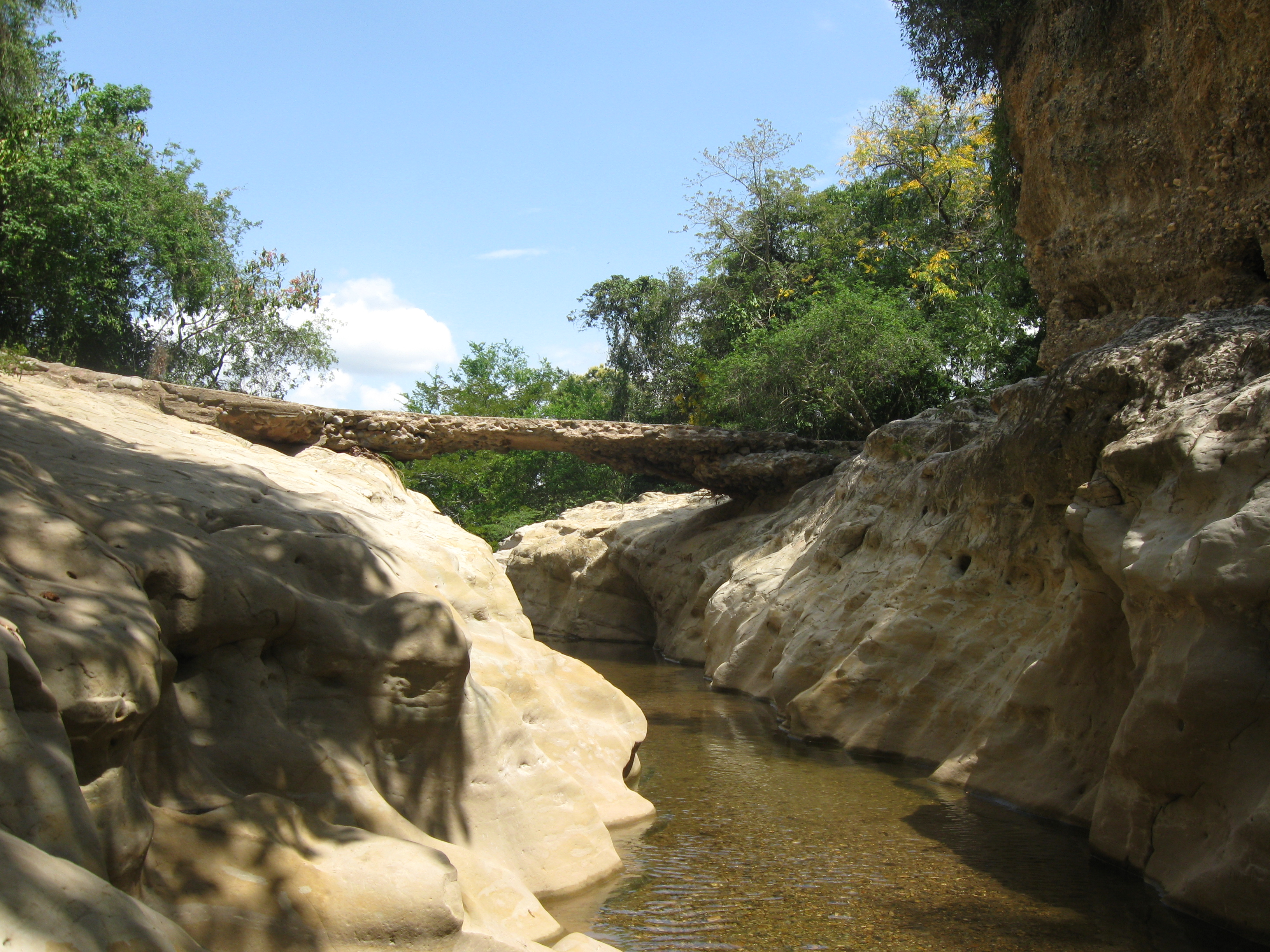 Creek in the Coello town.